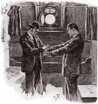 Inspector Lestrade arresting a suspect. From the Sherlock Holmes story The Cardboard Box, which appeared in The Strand Magazine in January, 1893. Original caption was "HE HELD OUT HIS HANDS QUIETLY".